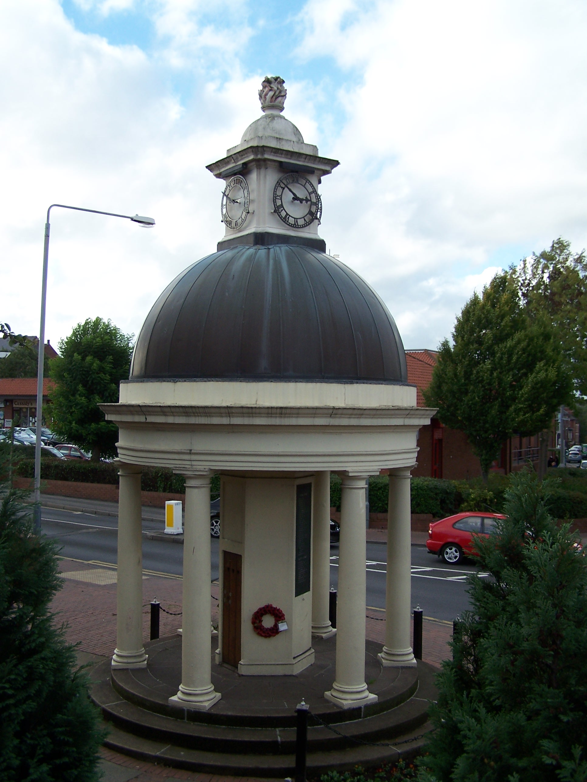 Author: Tina Cordon, Source: Own Picture Tina Cordon 15:37, 19 October 2006 (UTC)